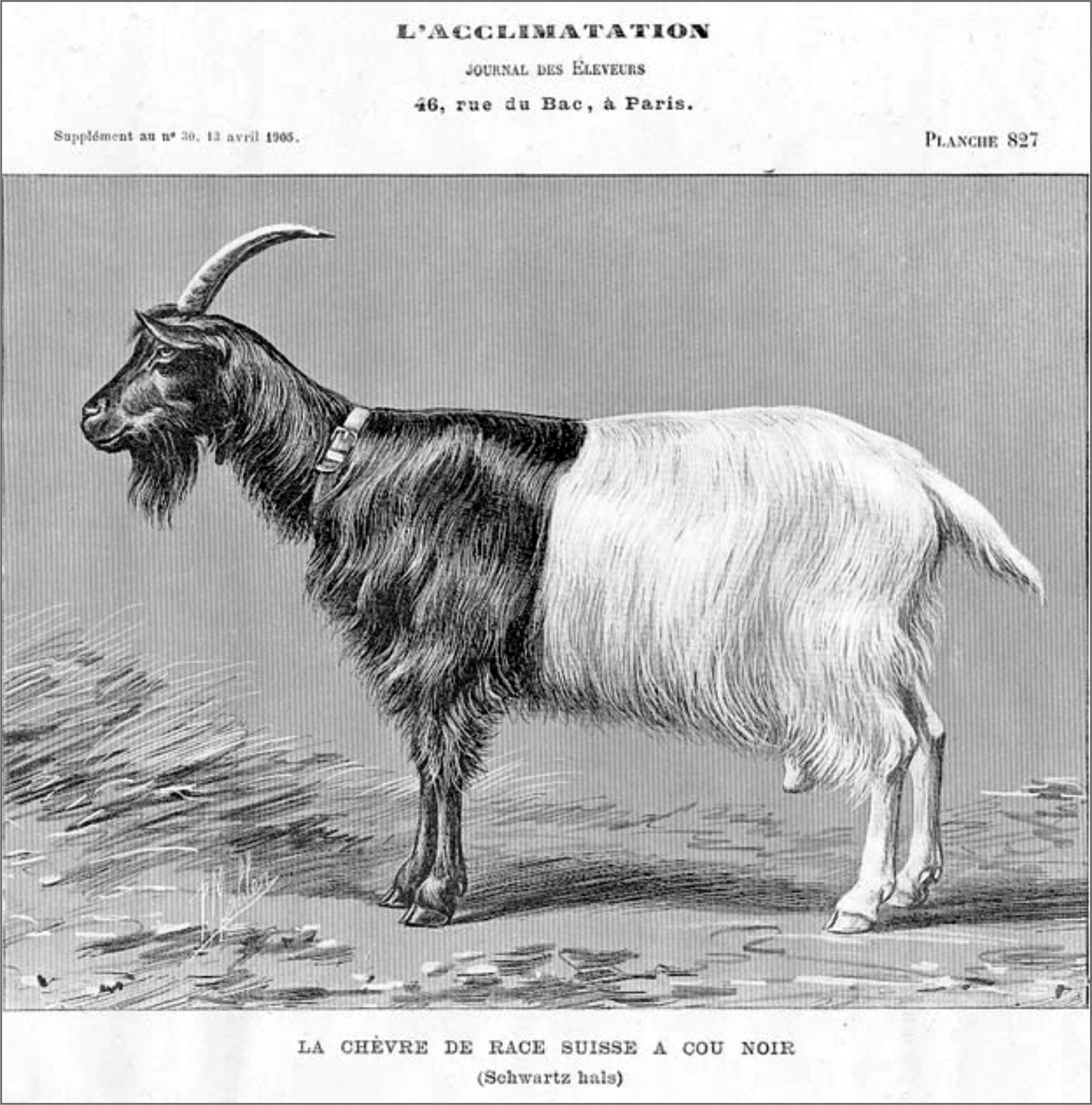 Valais Blackneck goat, engraving from the Journal des Eleveurs, 12 April 1905